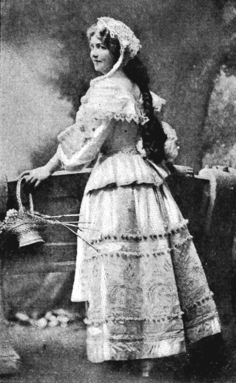 Mozart - Don Giovanni - Alice Nielsen as Zerlina - Vandyk, London Title: The Victrola book of the opera : stories of one hundred and twenty operas with seven-hundred illustrations and descriptions of twelve-hundred Victor opera records Year: 1917 (1910s) Authors: Victor Talking Machine Company Rous, Samuel Holland Subjects: Operas Publisher: Camden, N.J. : Victor Talking Machine Co. Text Appearing Before Image: aring vengeance. 01 VICTROLA BOOK OF THE OPERA — MOZARTS DON GIOVANNI SCENE III—In the Suburbs of Seville. Don GiovannisPalace Visible on the Right A rustic wedding party comprising Zerlina, Masettoand a company of peasants are enjoying an outing.Don Giovanni and Leporello appear, and the Don ischarmed at the sight of so much youthful beauty. Hebids Leporello conduct the party to his palace and givethem refreshments, contriving, however, to detainZerlina. Masetto protests, but the Don points signifi-cantly to his sword and the bridegroom prudentlydecides to follow the peasants. The Don then proceeds to flatter the young girland tells her she is too beautiful for such a clown asMasetto. She is impressed and coquettes with him inthe melodious duet, La ci darem, the witty phrases anddelicate harmonies of which make it one of the gemsof Mozarts opera. La ci darem la mano (Thy LittleHand, Love!) By Geraldine Farrar, Soprano, andAntonio Scotti, Baritone (In Italian) 89015 12-inch, $4.00 Text Appearing After Image: VANDYK, LONDON NIELSEN AS ZERLINA By Graziella Pareto, Soprano, and Titta Ruffb, Baritone (In Italian) 92505 12-inch, $4.00 This celebrated number, which has been sung by manyfamous artists during the one hundred and twenty-eight yearssince its first hearing, is one of the best examples of the manysparkling concerted numbers which Mozart has written.